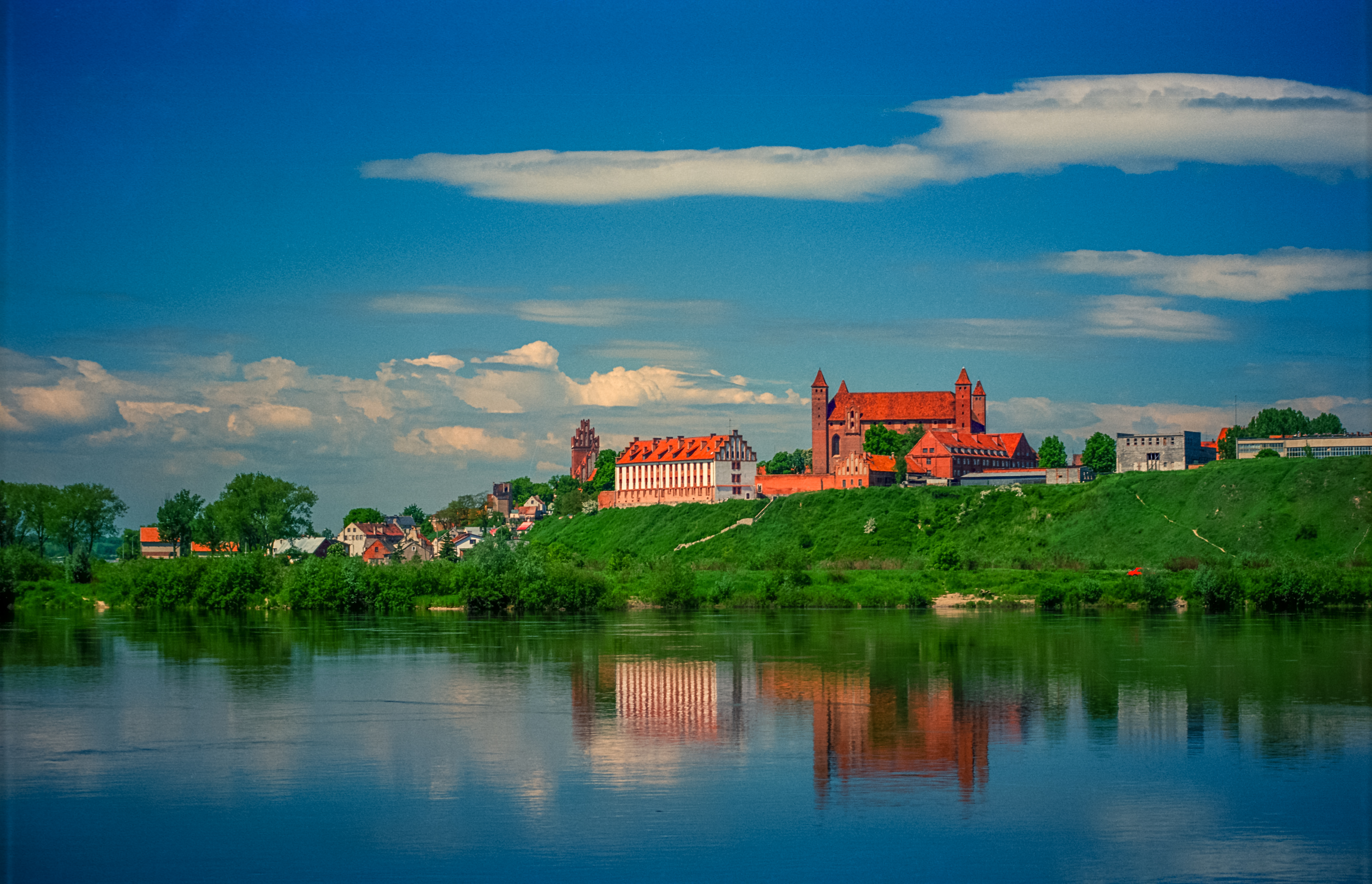 Poland, Gniew Castle